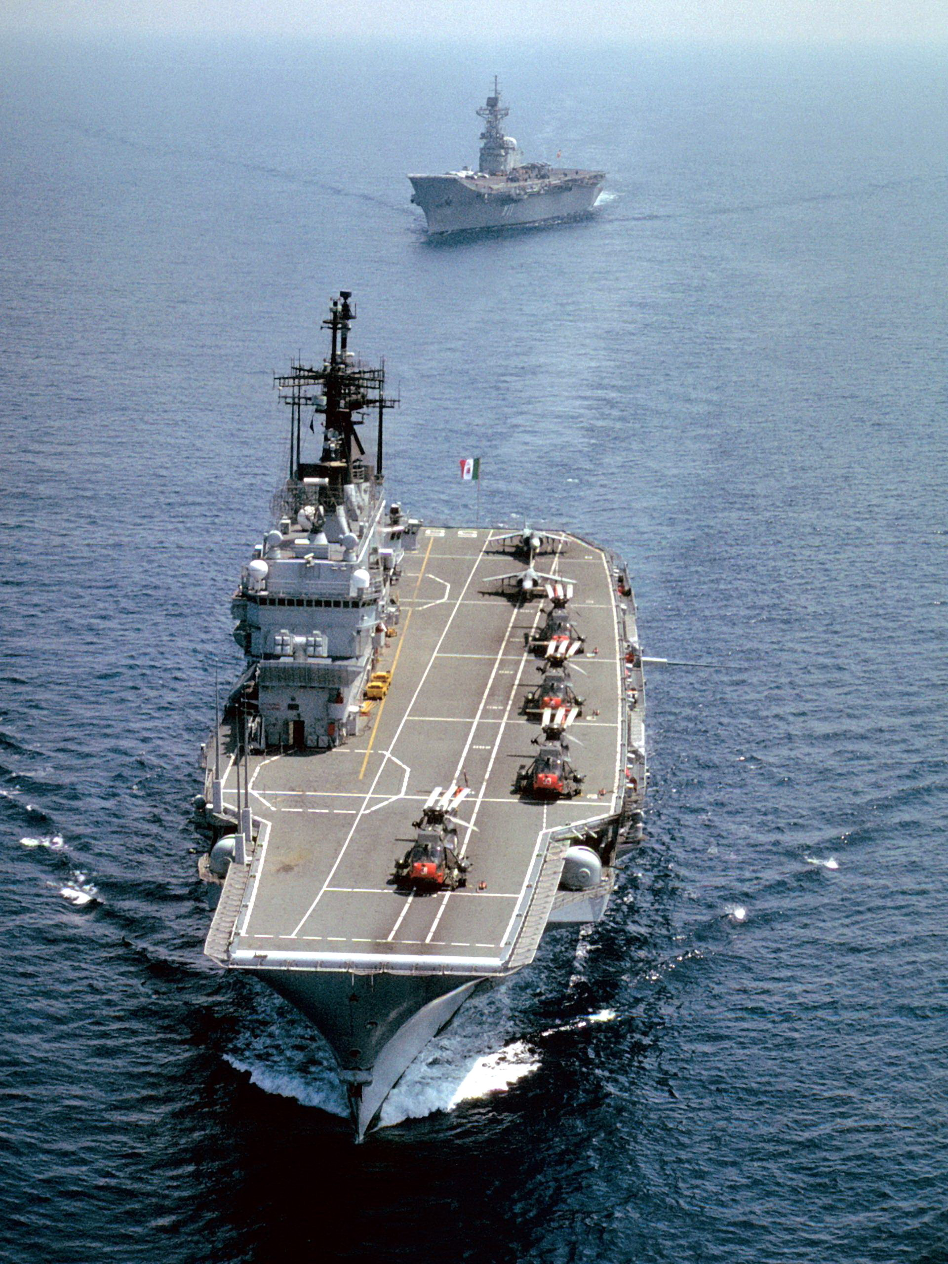 Italian aircraft carrier Garibaldi and spanish aircraft carrier Principe de Asturias during exercise Dragon-Hammer92